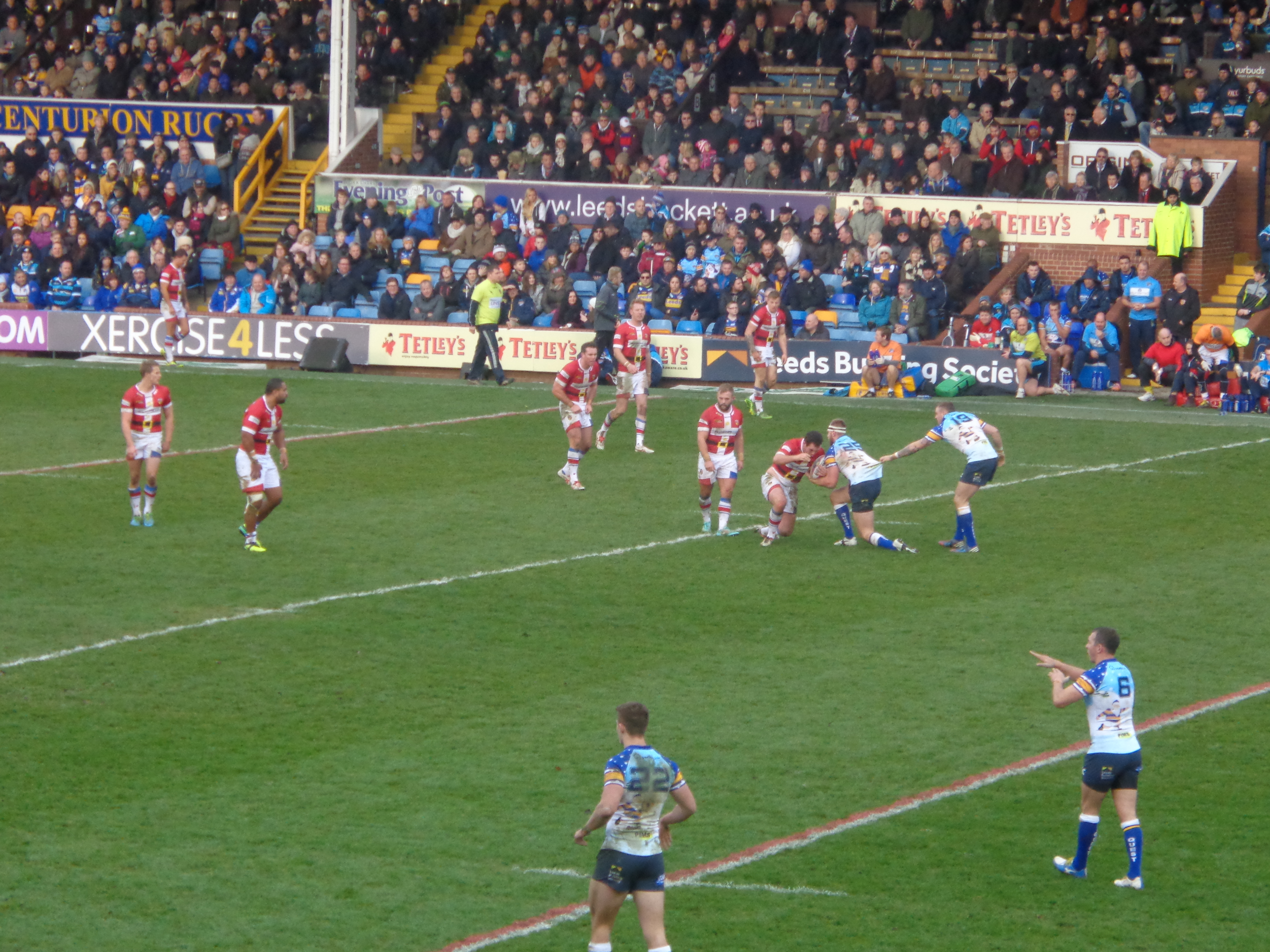 The 2014 Tetley's Festive Challenge is the 2014 leg of a traditional rugby league encounter played between Leeds Rhinos and Wakefield Trinity Wildcats which kicked off at 11:30 am on Boxing Day at Headingley Stadium. Taken during the second half of the game which was won by the hosts on the afternoon of Friday the 26th of December 2014.